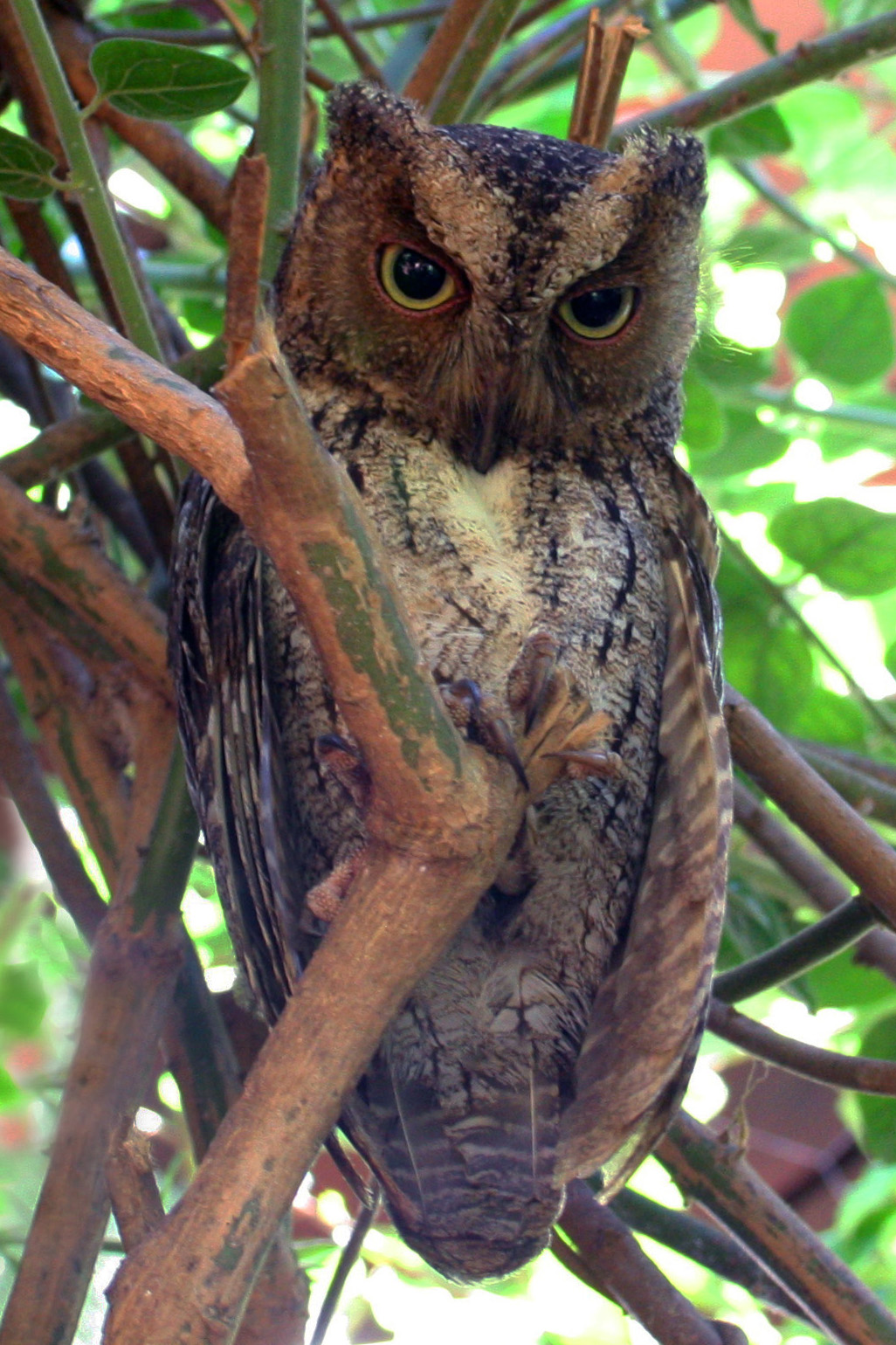 Madagascar torotoroka scops owl (Otus madagascariensis), Anjajavy Forest, Madagascar